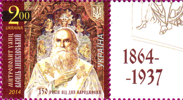 Stamp of Ukraine, 2014